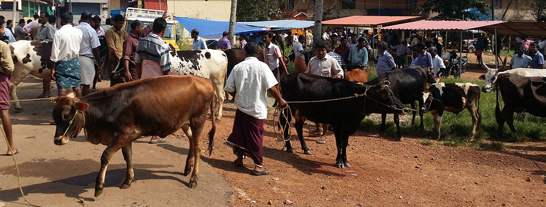 Cattle market 'kaali chantha' at Elavumthitta, held on every 9th and 22nd of Malayalam month.